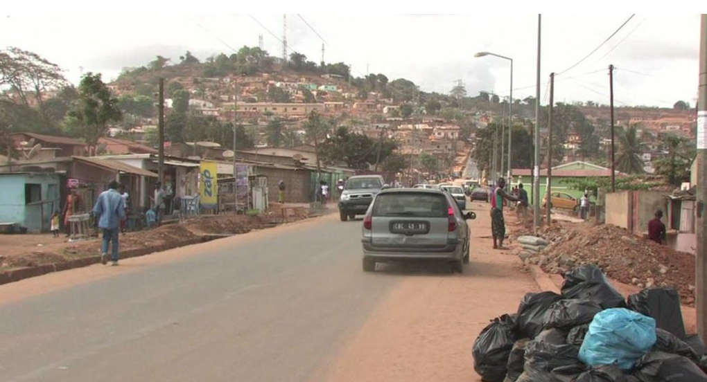 Cabinda city